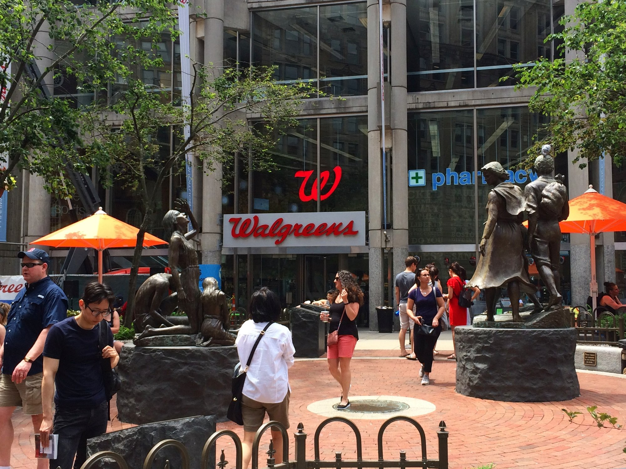 Downtown Boston's memorial to Ireland's Great Famine stands, somewhat incongruously, in front of the Walgreens drugstore chain's flagship store.